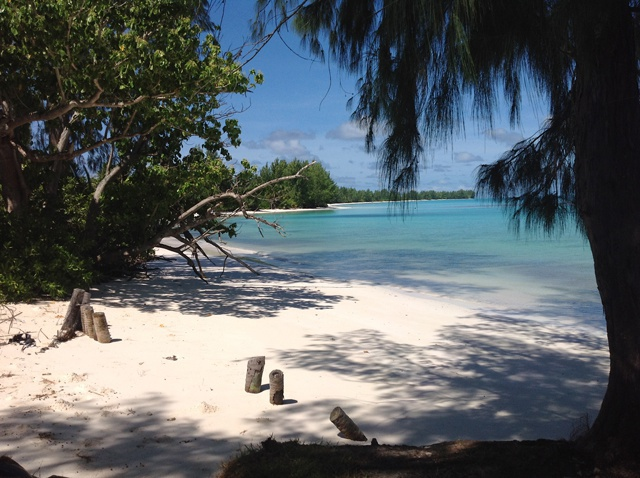 A beach on Coëtivy Island, Seychelles